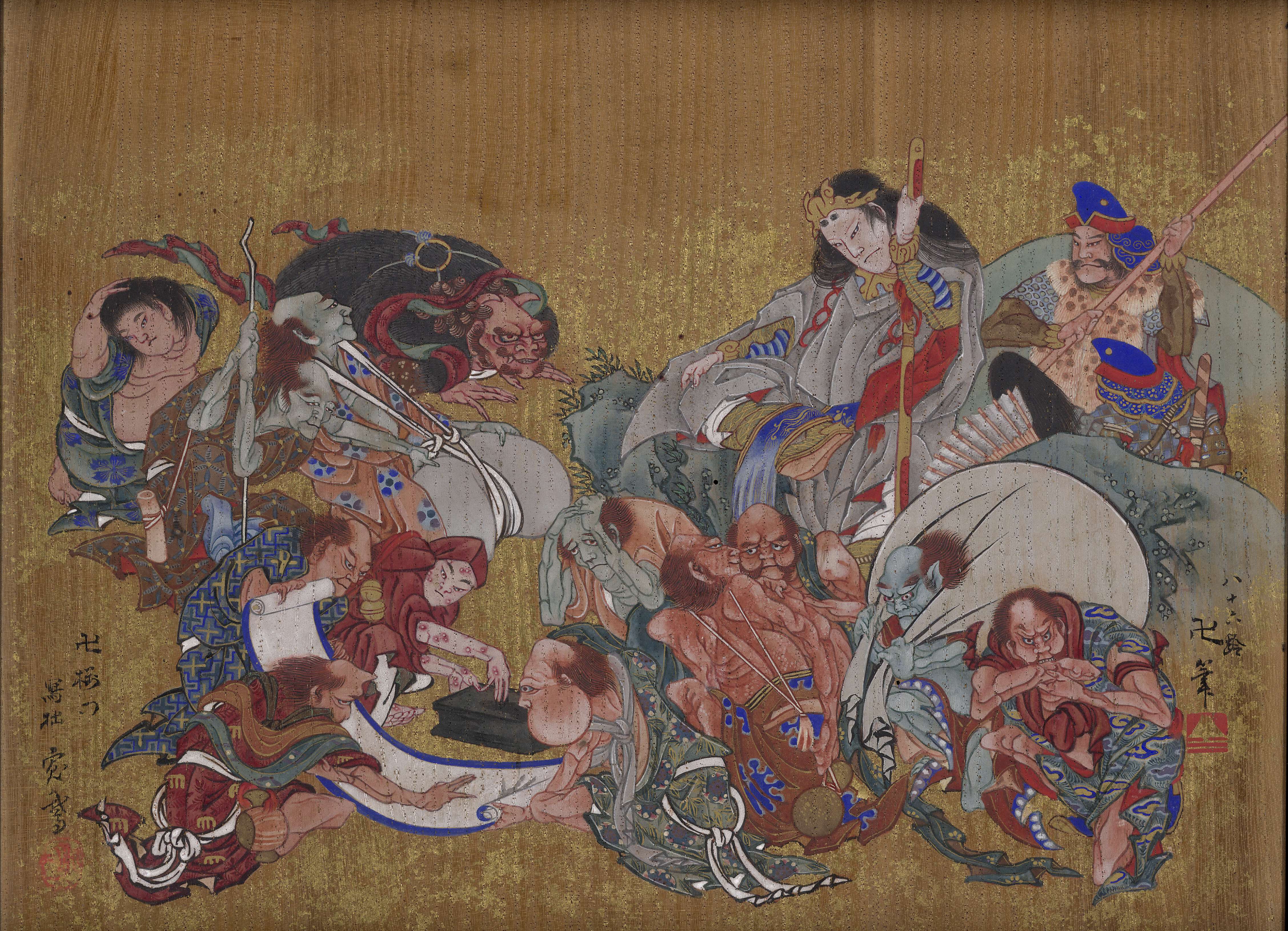 Susanoo-no-Mikoto making a pact with various spirits of disease. Reduced-scale copy of a votive panel by Katsushika Hokusai in Ushijima Shrine (Mukōjima, Sumida-ku, Tokyo).